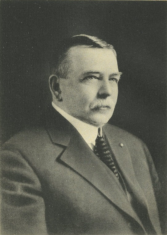 Portrait of Dorr E. Felt